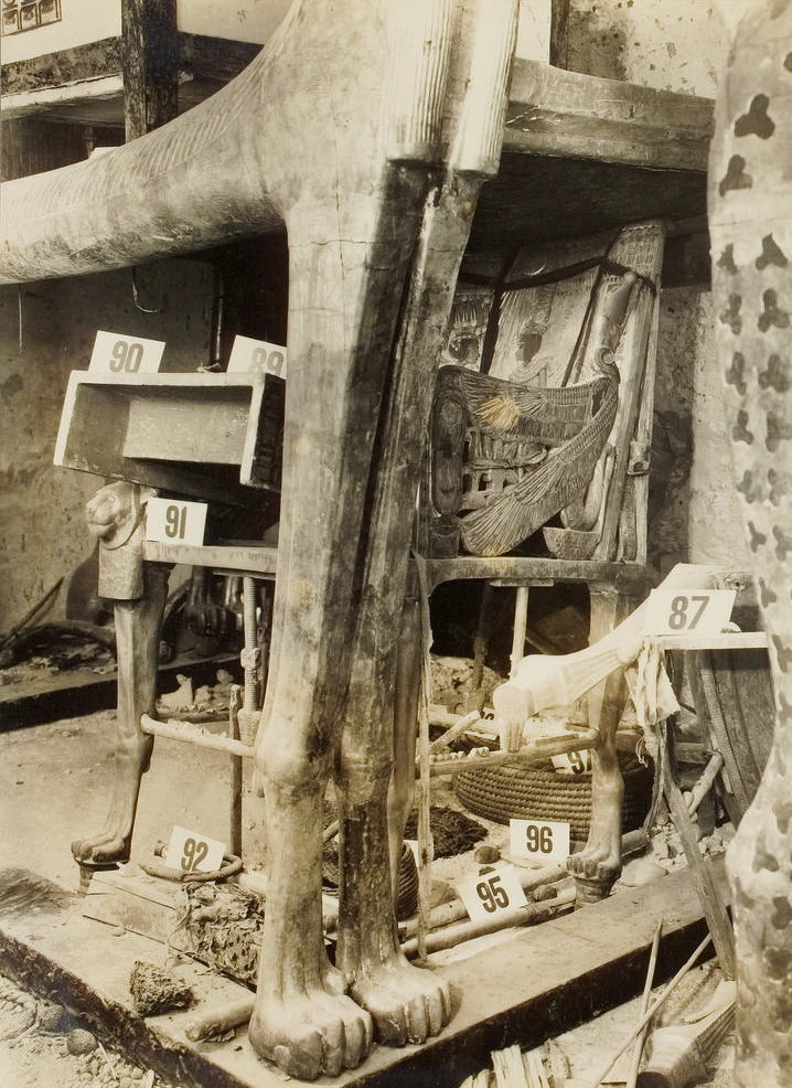 Harry Burton: Tutankhamun tomb photographs: a photographic record in 5 albums containing 490 original photographic prints ; representing the excavations of the tomb of Tutankhamun and its contents. Vol. 2